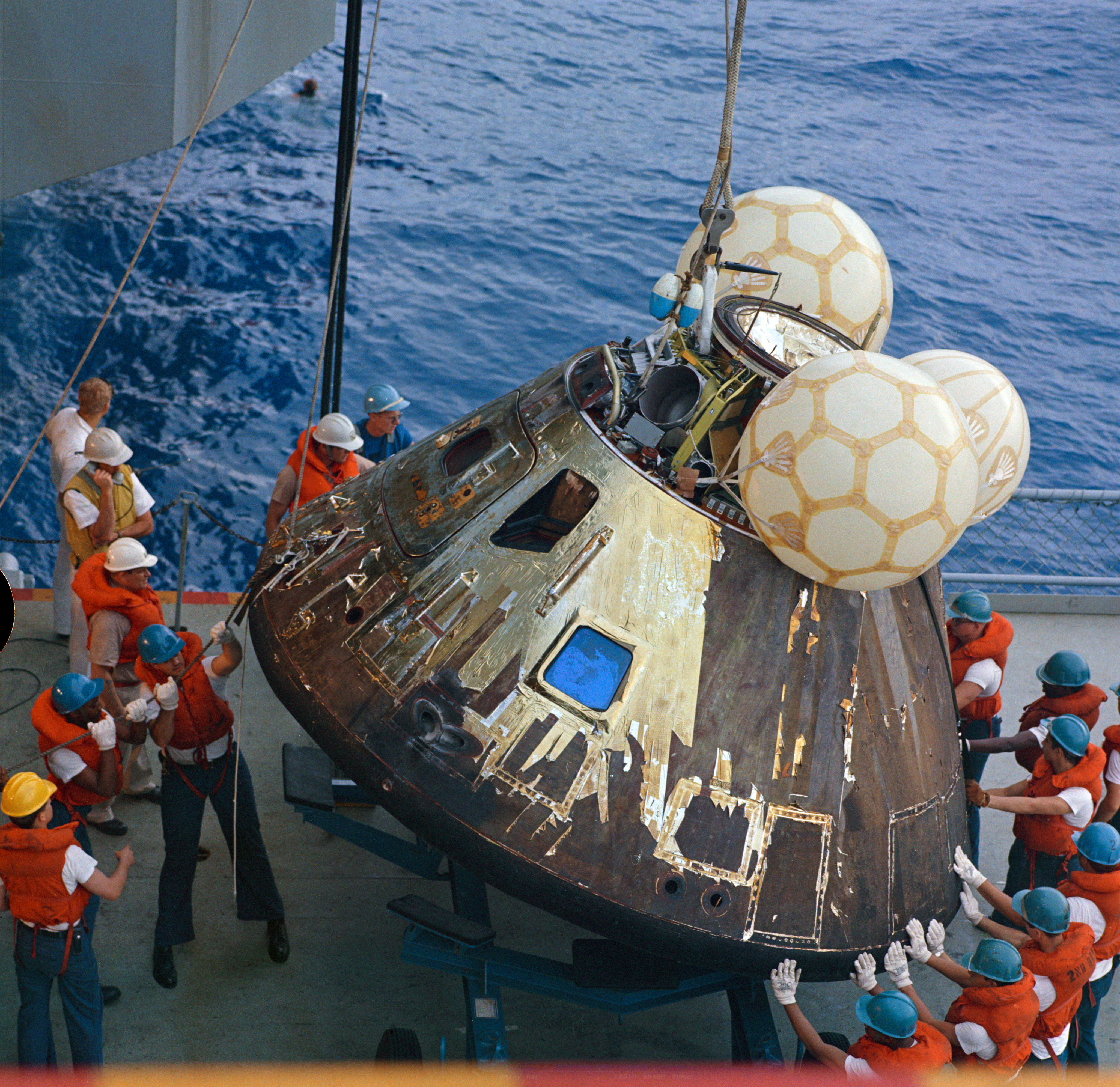 Crewmen aboard the USS Iwo Jima, prime recovery ship for the Apollo 13 mission, guide the Command Module (CM) atop a dolly onboard the ship. The CM is connected by strong cable to a hoist on the vessel. The Apollo 13 crewmembers, astronauts James A. Lovell Jr., commander; John L. Swigert Jr., command module pilot; and Fred W. Haise Jr., lunar module pilot, were already aboard the USS Iwo Jima when this photograph was made. The CM, with the three tired crewmen aboard, splashed down at 12:07:44 p.m. (CST), April 17, 1970, only about four miles from the recovery vessel in the South Pacific Ocean.